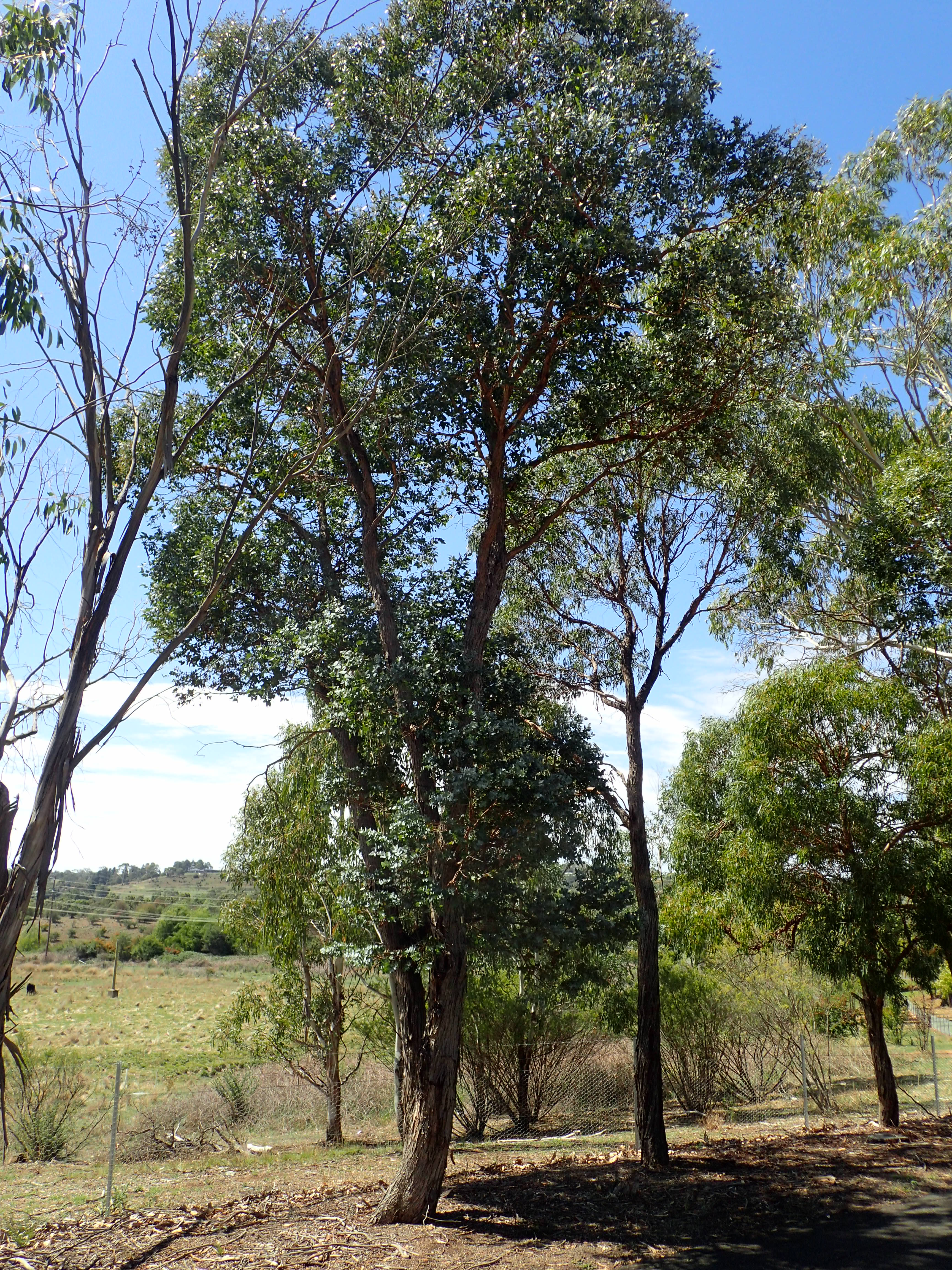 Eucalyptus crenulata near along the path adjacent to Wright Village at the University of New England, Armidale